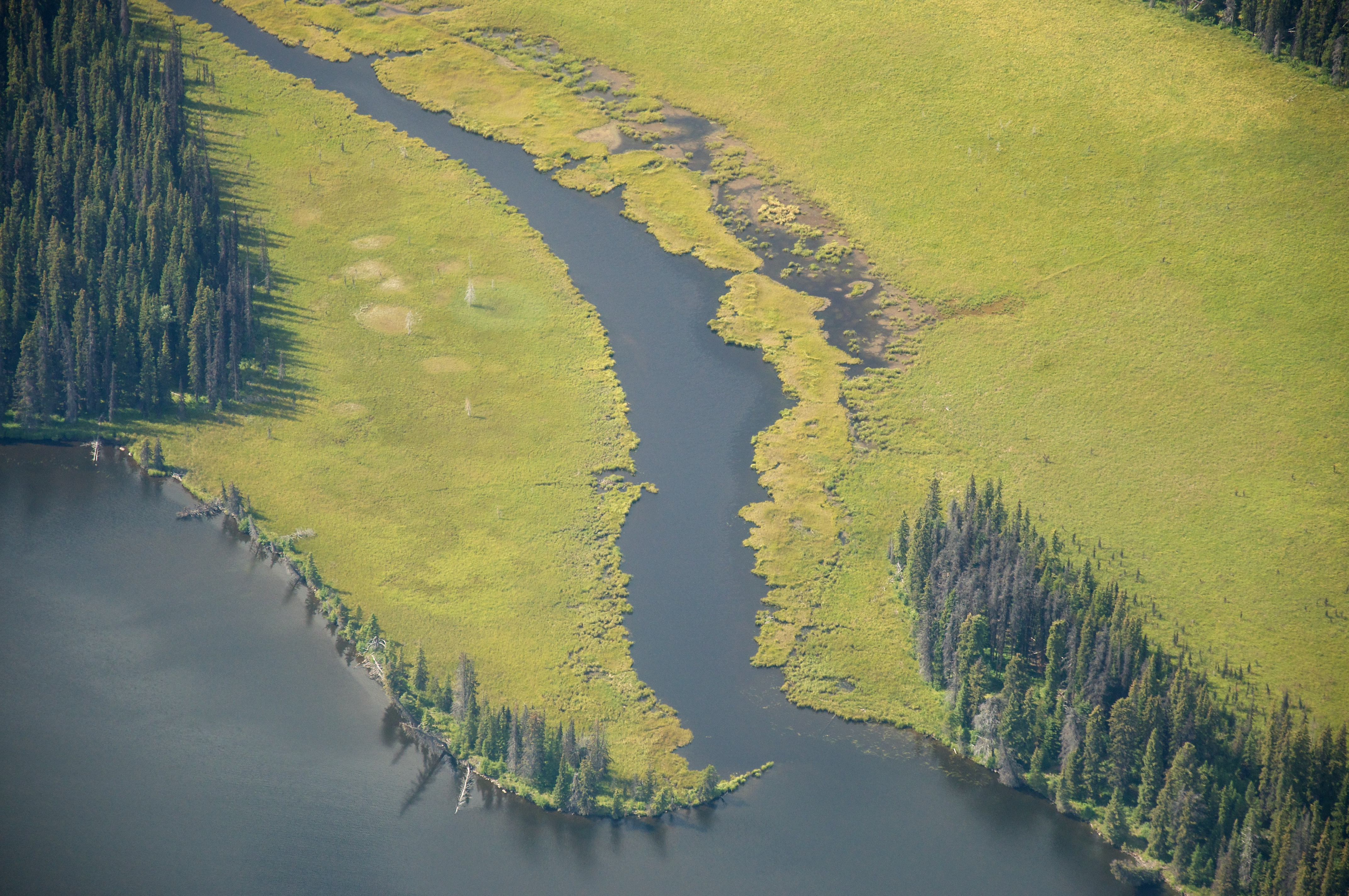 Aerial view of mouth of Ulgako Creek at Eliguk Lake